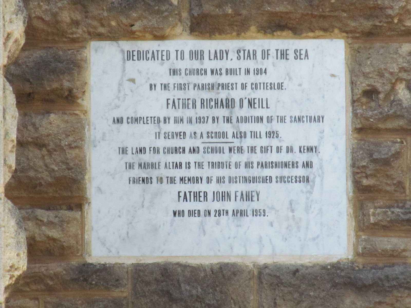 Foundation stone at St Mary's Star of the Sea Roman Catholic church, Cottesloe